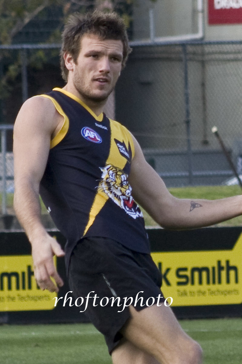 Dean Polo, Richmond training august 1st 2009